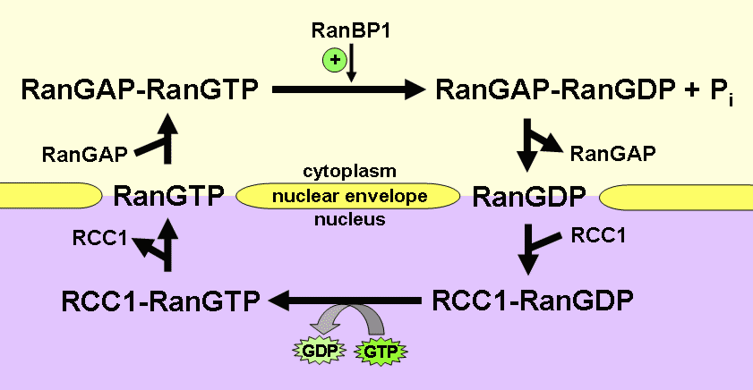 Schematic representation of the Ran GTPase cycle. (Made this myself using Powerpoint/Photoshop.)